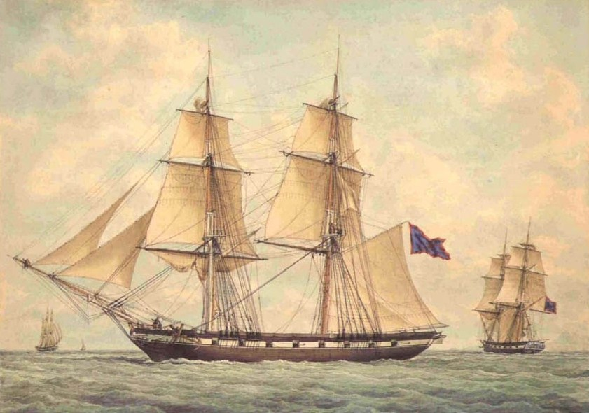 Greek vessel belonging to Anastasios Tsamados from Hydra